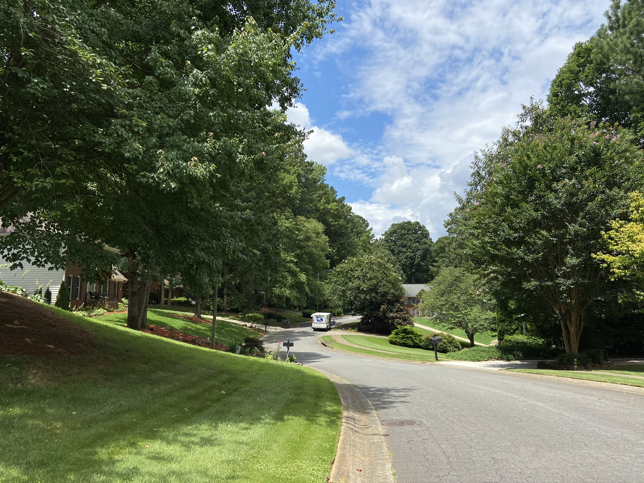 A typical residential street in Mableton